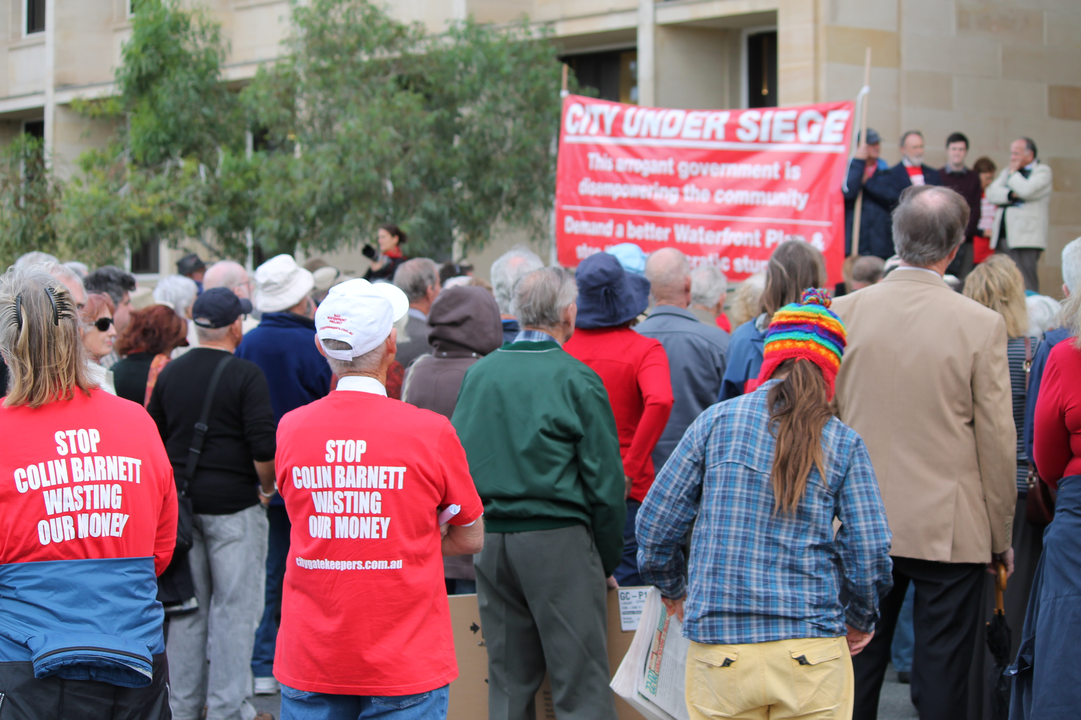 Crowd at Parliament House Perth, listening to speakers on the Perth waterfront development 13 06 12